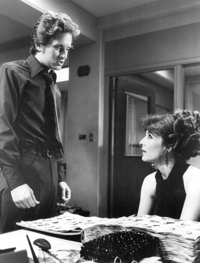 Photo from the television program The Streets of San Francisco. Pictured are Steve Keller (Michael Douglas) and Janice Rule.